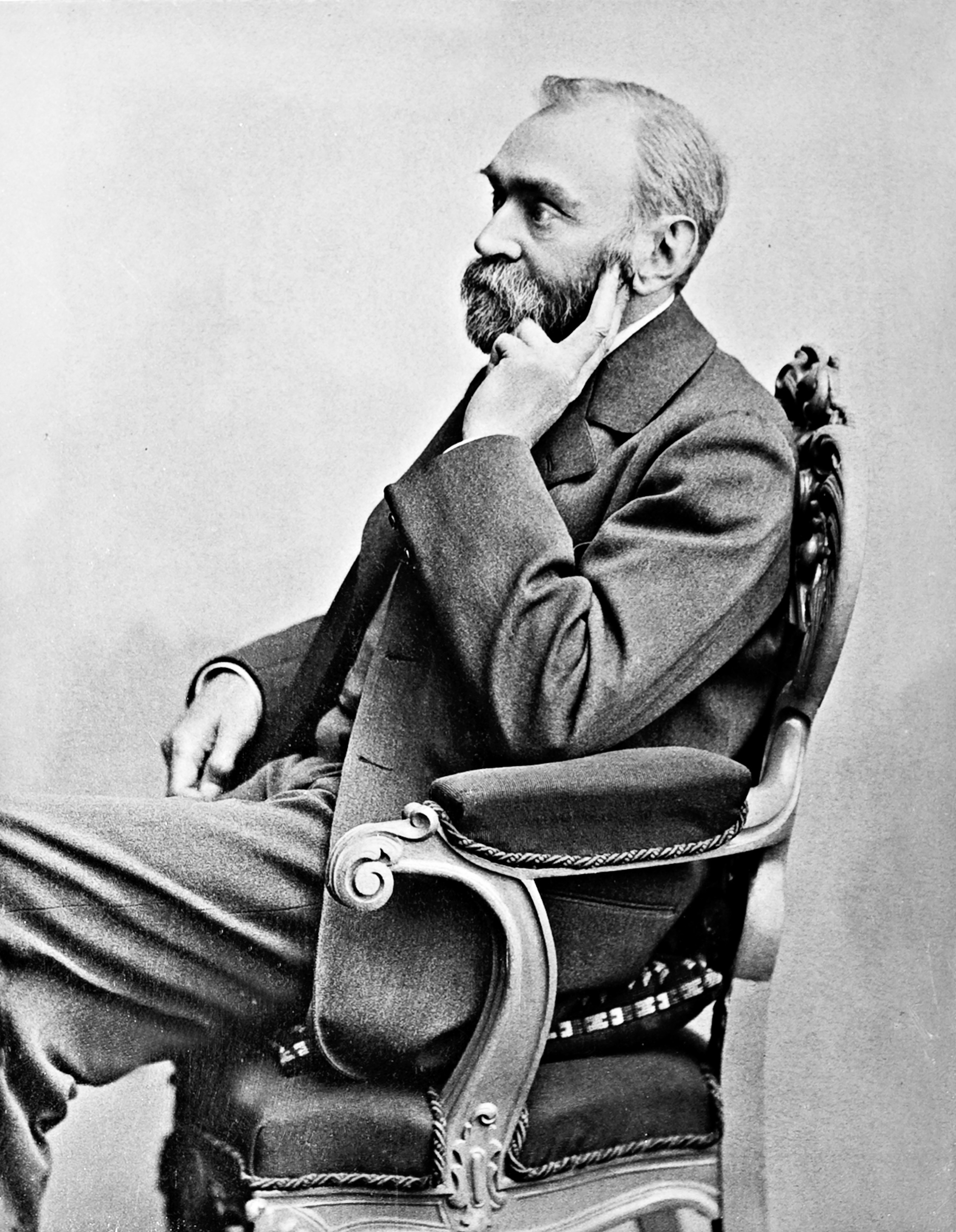 Portrait of Alfred Nobel (1833-1896) by Gösta Florman (1831–1900).